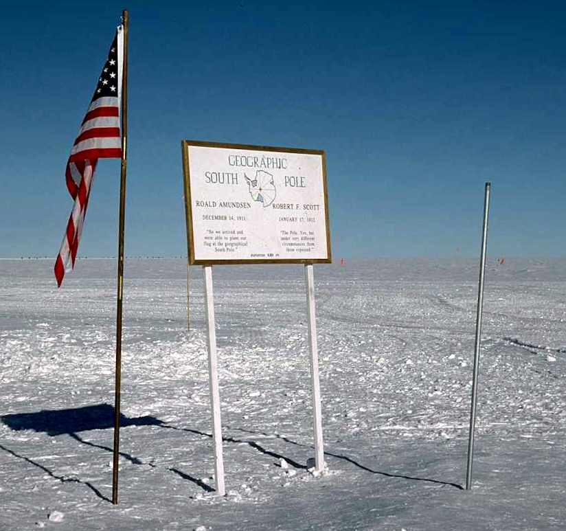 Geographic Southpole